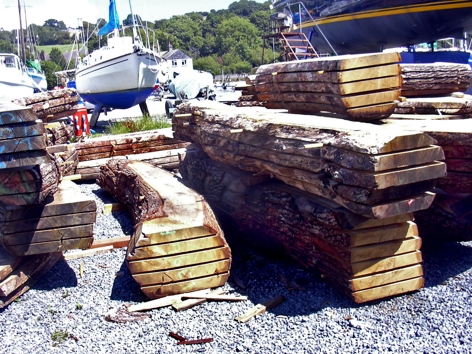 Gweek Quay: Timber seasoning